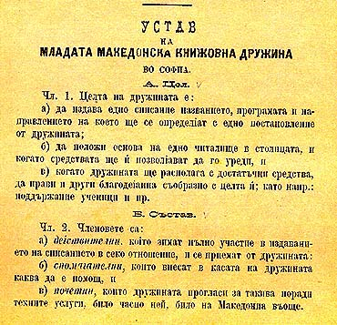 Statute of the "young literary society"